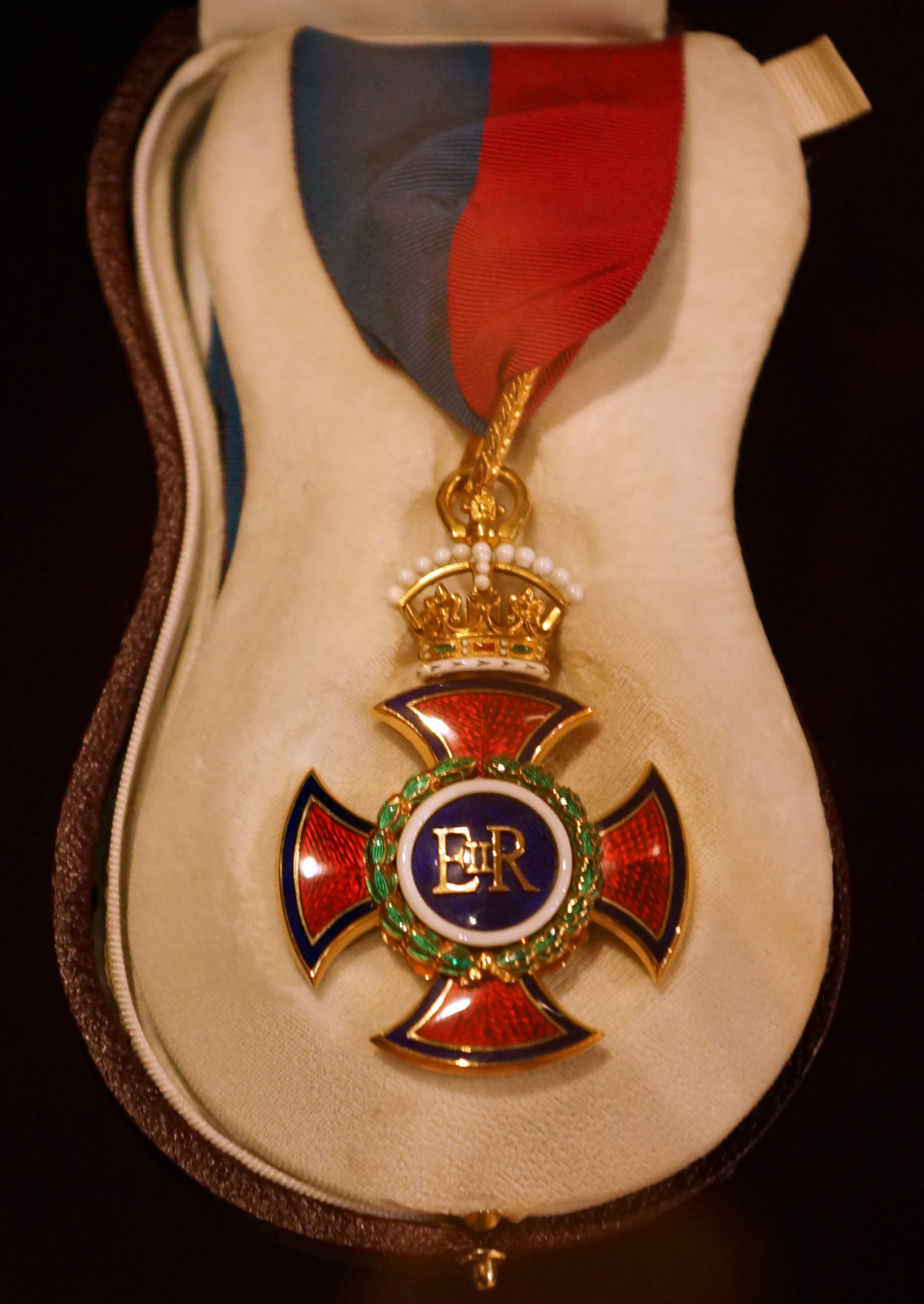 Order of Merit to Cardinal Hulme displayed in Westminster Cathedral, London, England.